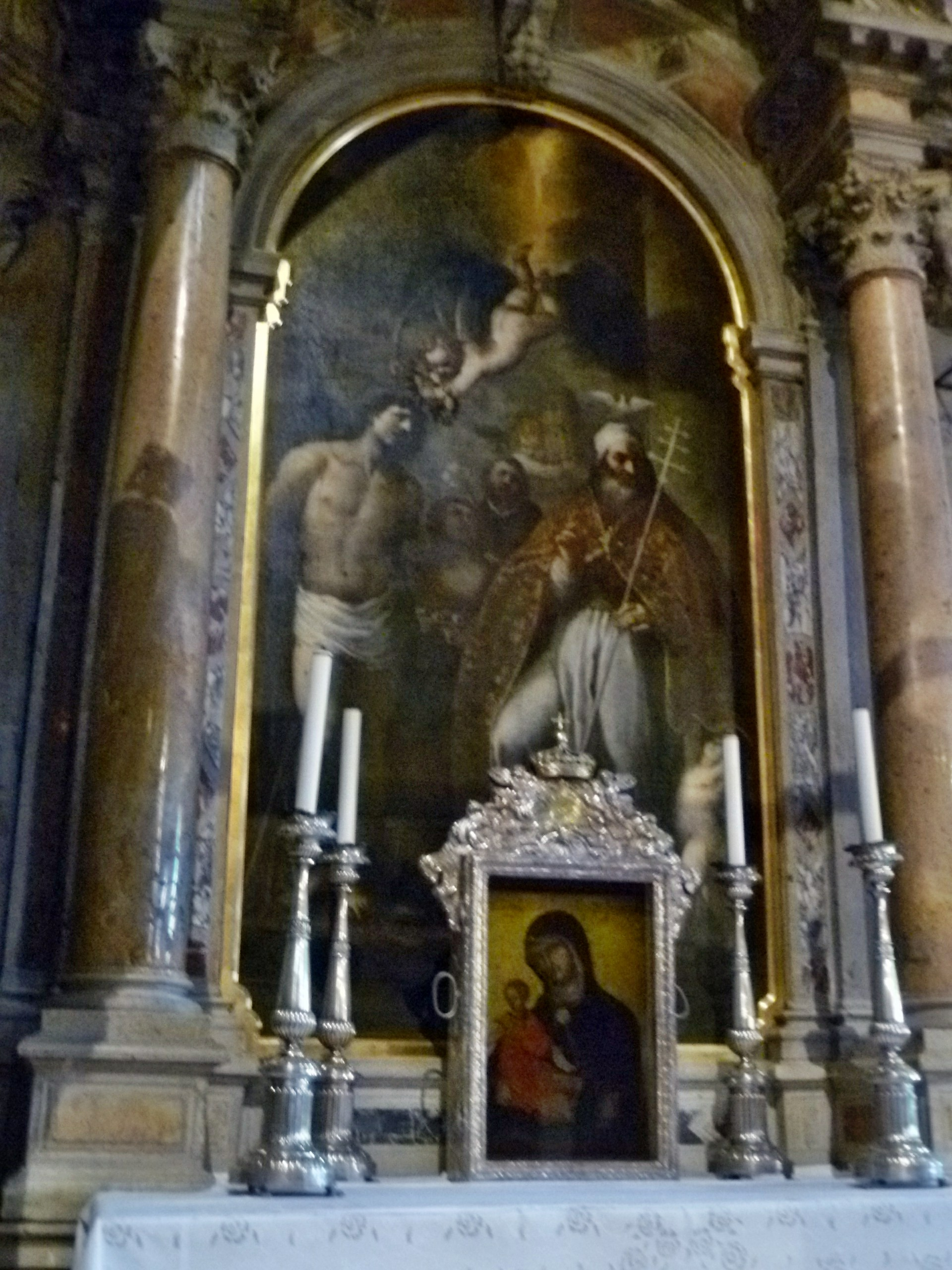 Baroque altar of St. Fabian and St. Sebastian;Mannerist painting by Filippo Zaniberti; Interior of the Cathedral of St. Jacob in Šibenik, Croatia